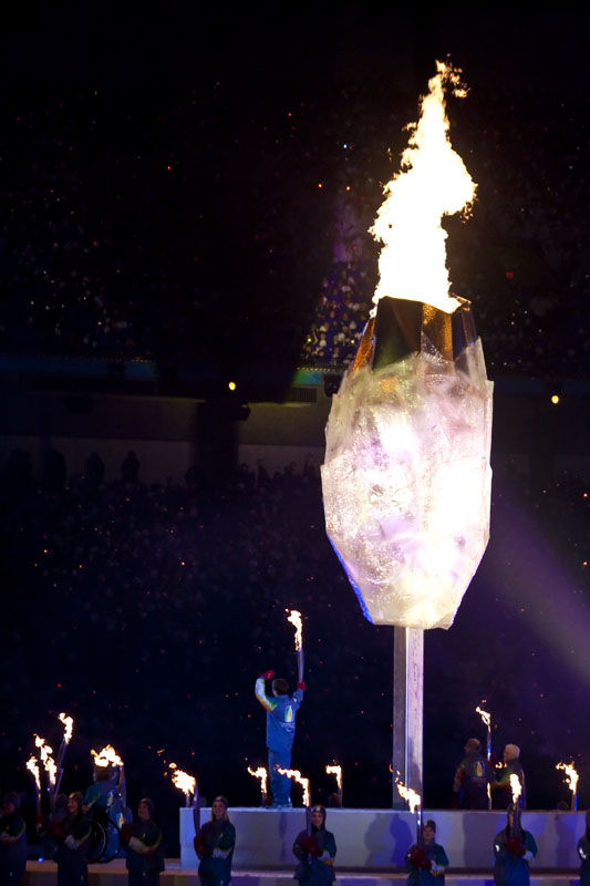 Zach Beaumont, 15, from Delta, lit the Paralympic cauldron, at the Winter Paralympics 2010 in Vancouver, Canada.